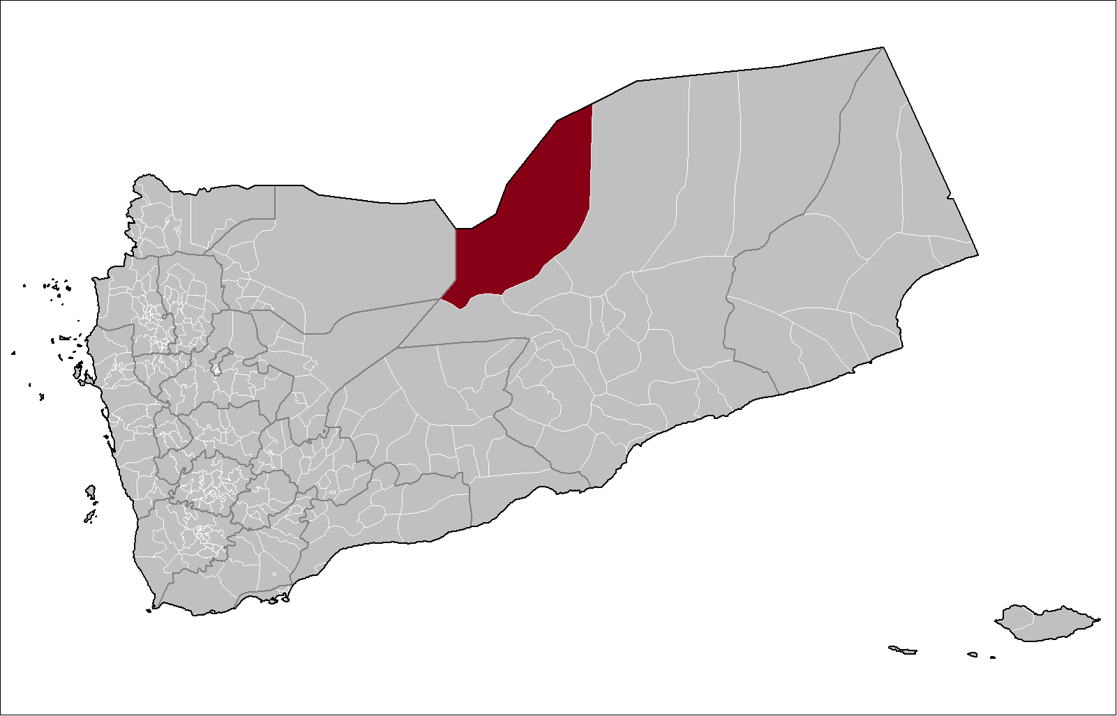 District locator of Zamakh wa Manwakh District in Hadhramaut Governorate, Yemen.